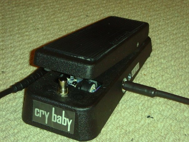 My Dunlop Cry Baby.